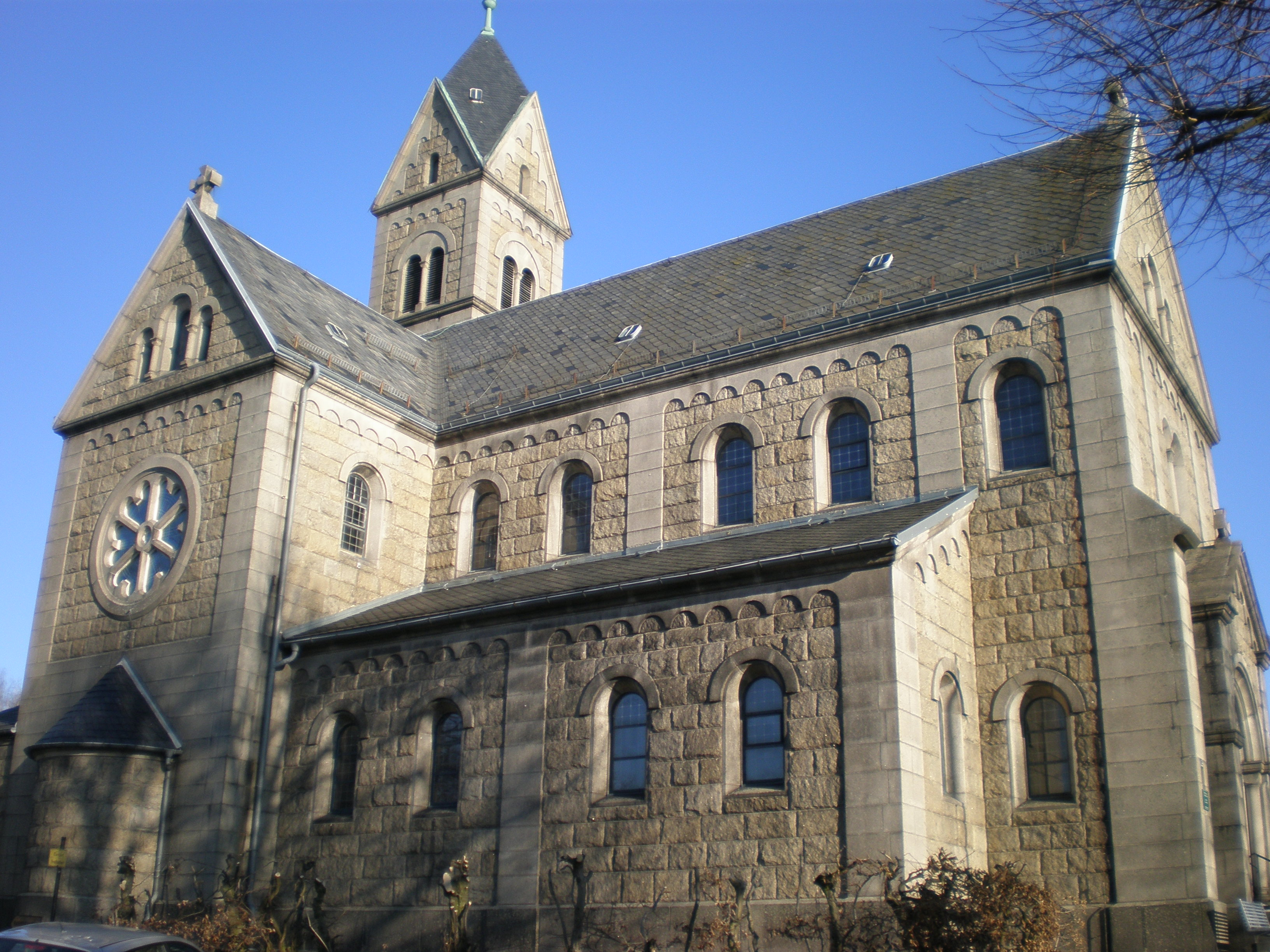 The catholic church in Münchberg